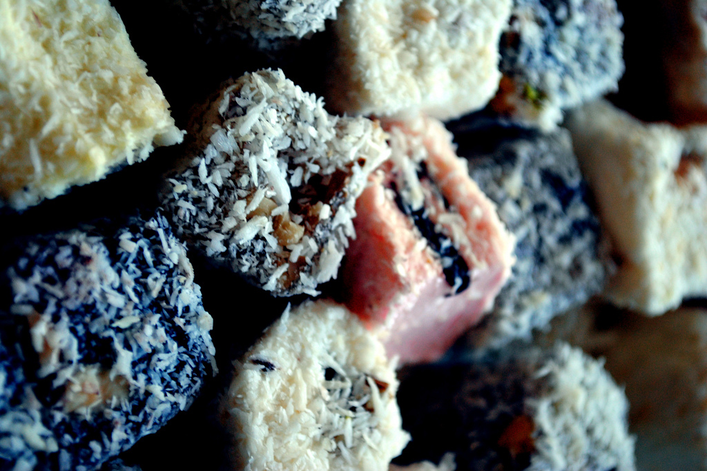 Turkish Delight